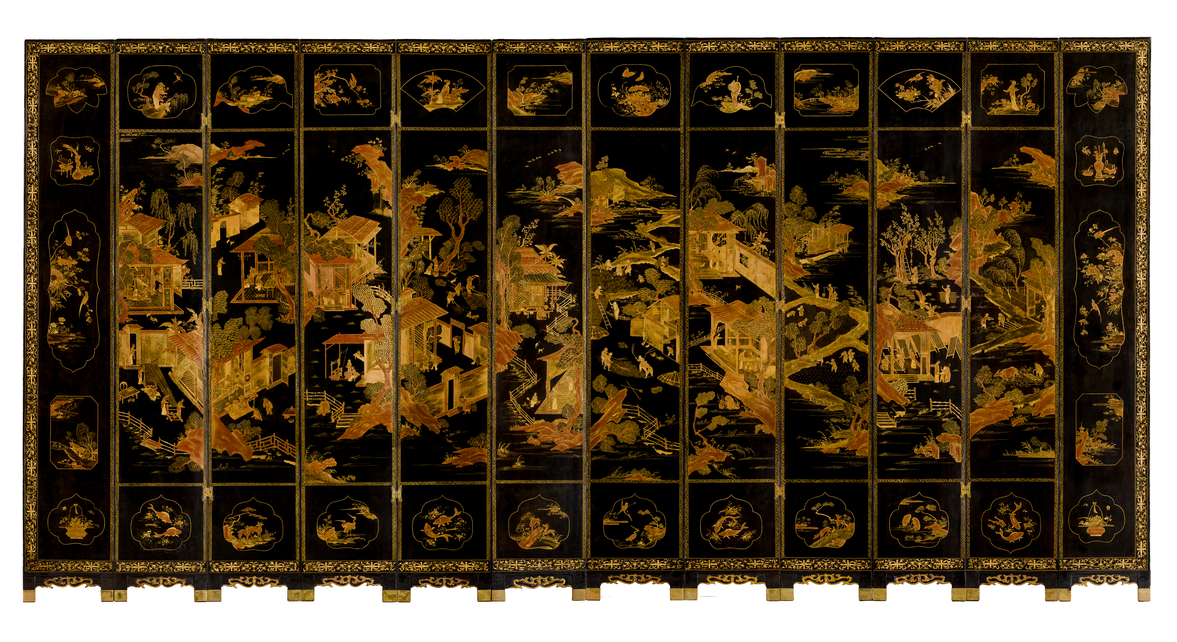 Artists from Guangzhou (Canton), Guangdong province, China Armorial screen Qing dynasty, 1720–1730, Wood, lacquer, gold, Museum purchase, 2004. E84093 Peabody Essex Museum